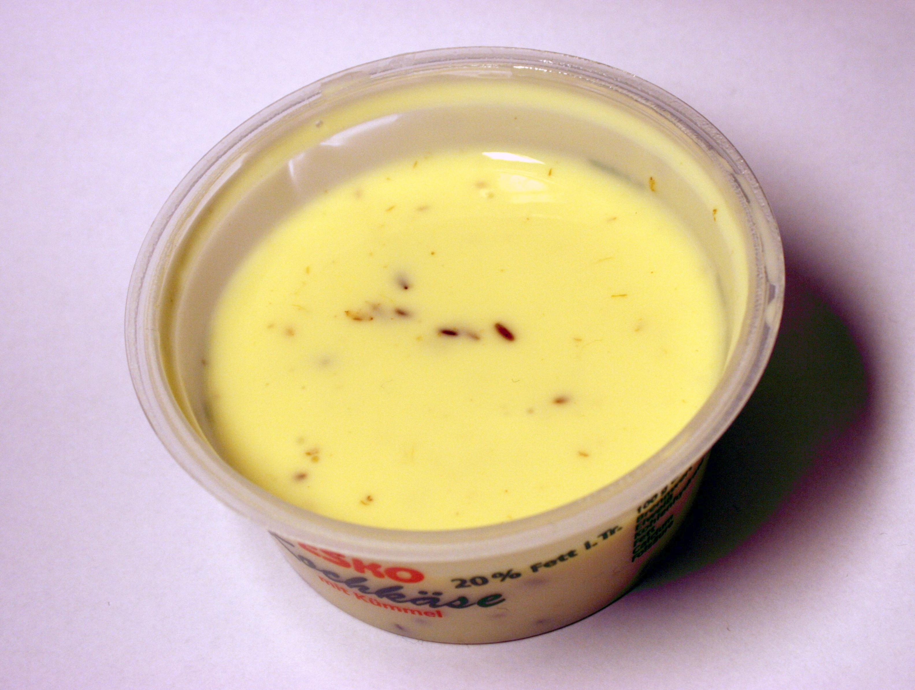 Cooked cheese with caraway; in a cup, machine-made.